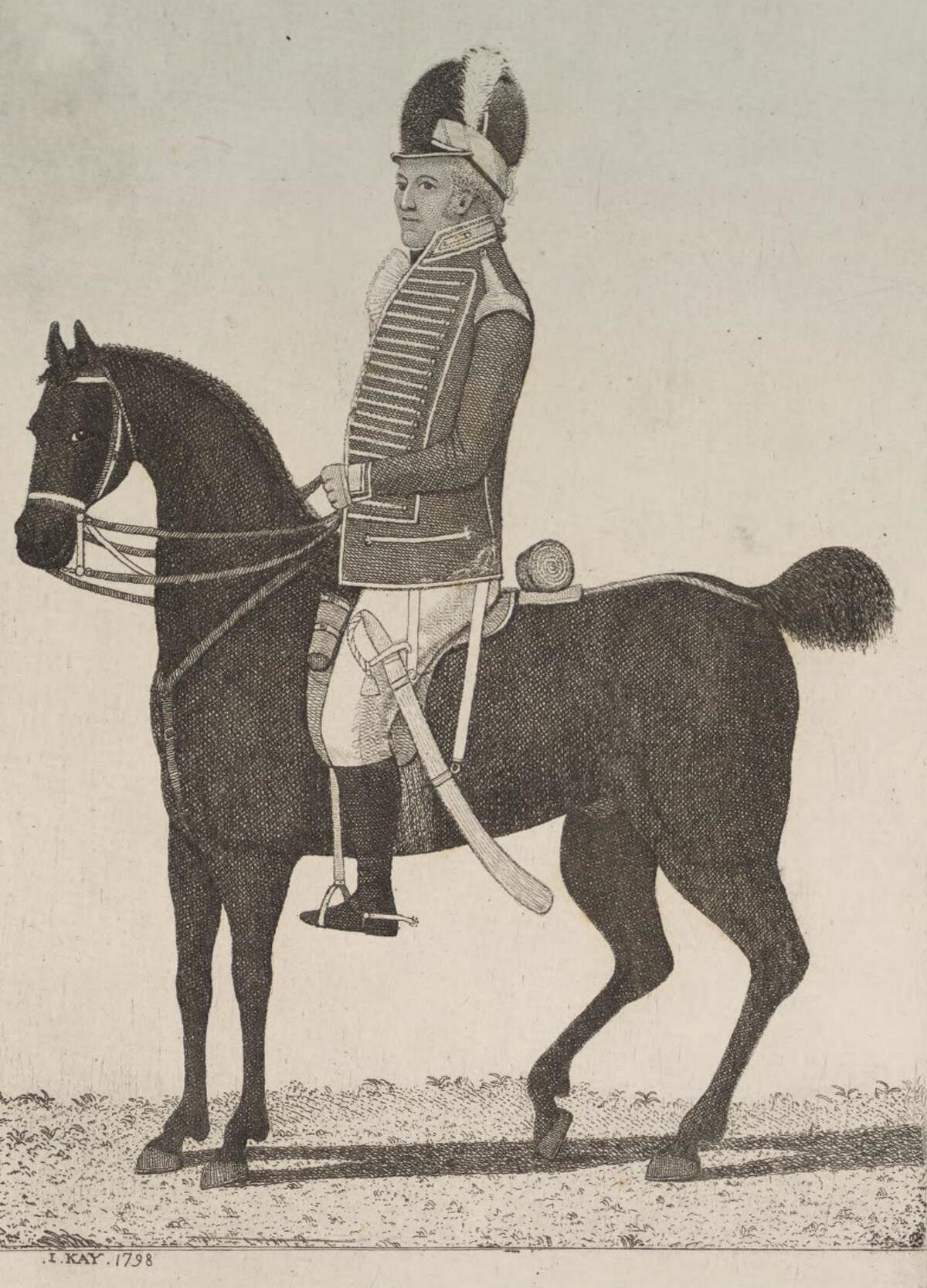 A portrait from the Welsh Portrait Collection at the National Library of Wales. Depicted person: Sir George Nugent, 1st Baronet – British Army officer